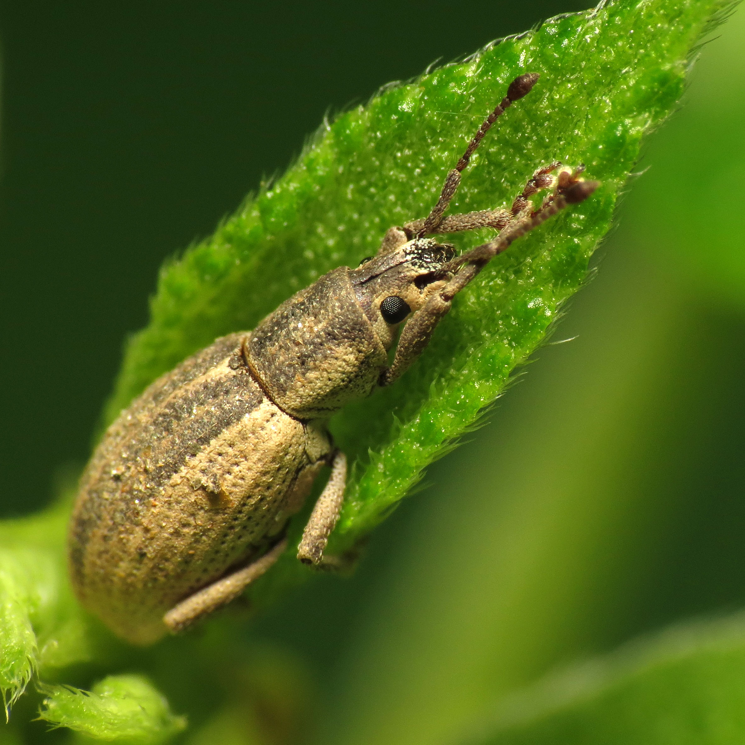 Aphrastus taeniatus. Rock Creek Park, Washington, DC, USA.